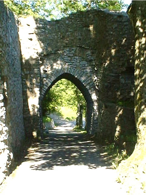 Gate of Kerpen Castle